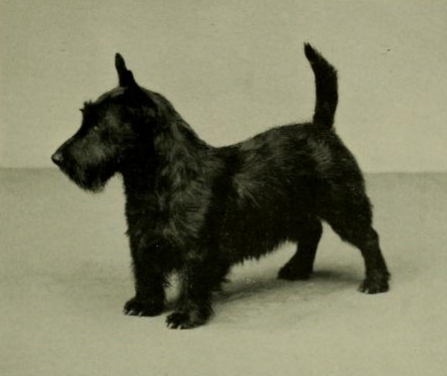 "Most popular living Scottish Terrier sire" Champion Bapton Norman "when only three old he had already sired three champions and nine winners of championship points or certificates" (screen grab from the online version)